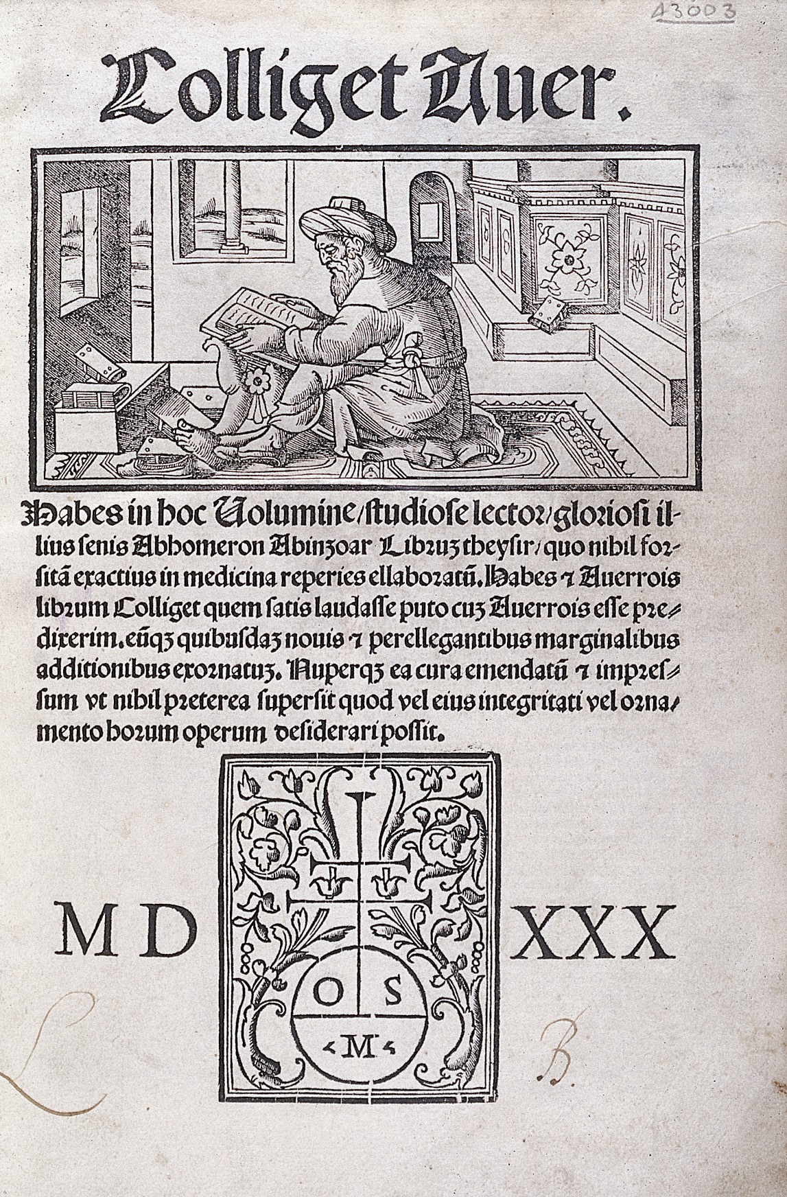 Title page. Rare Books Keywords: Averrohes